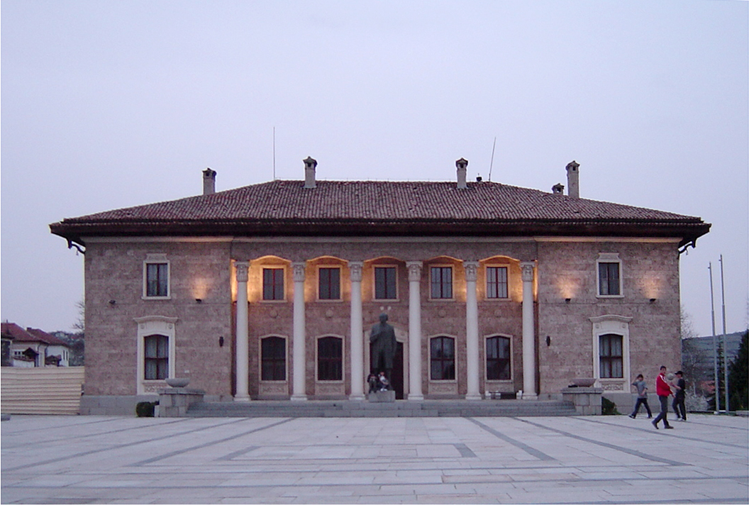 Georgi Dimitrov Memorial House, Kovachevtsi, Pernik Province, Bulgaria